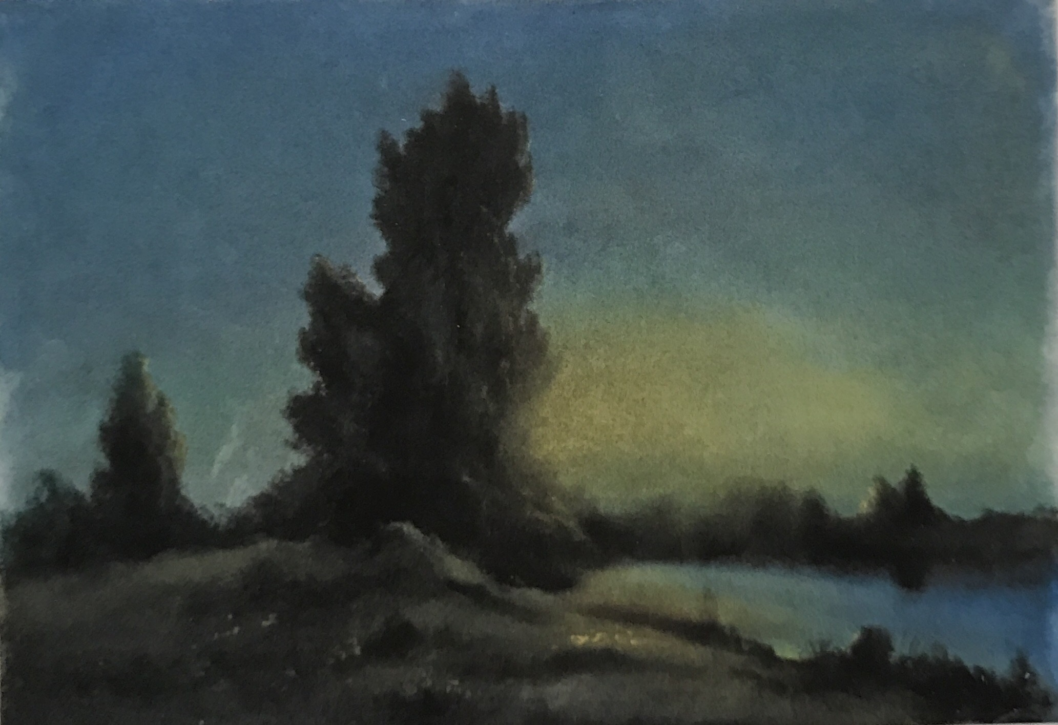 Landscape with river and trees (painting, attributed to Fyodor Vasilyev, 1870s)